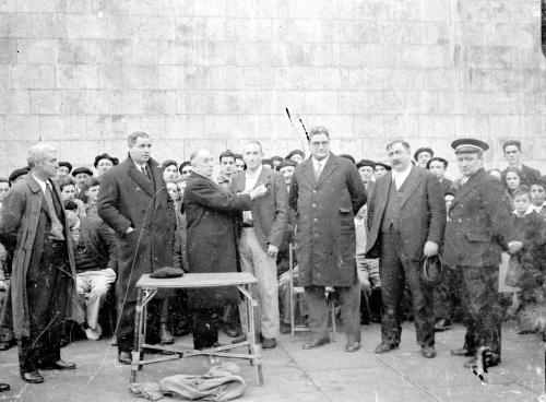 Keixeta homage in 1936